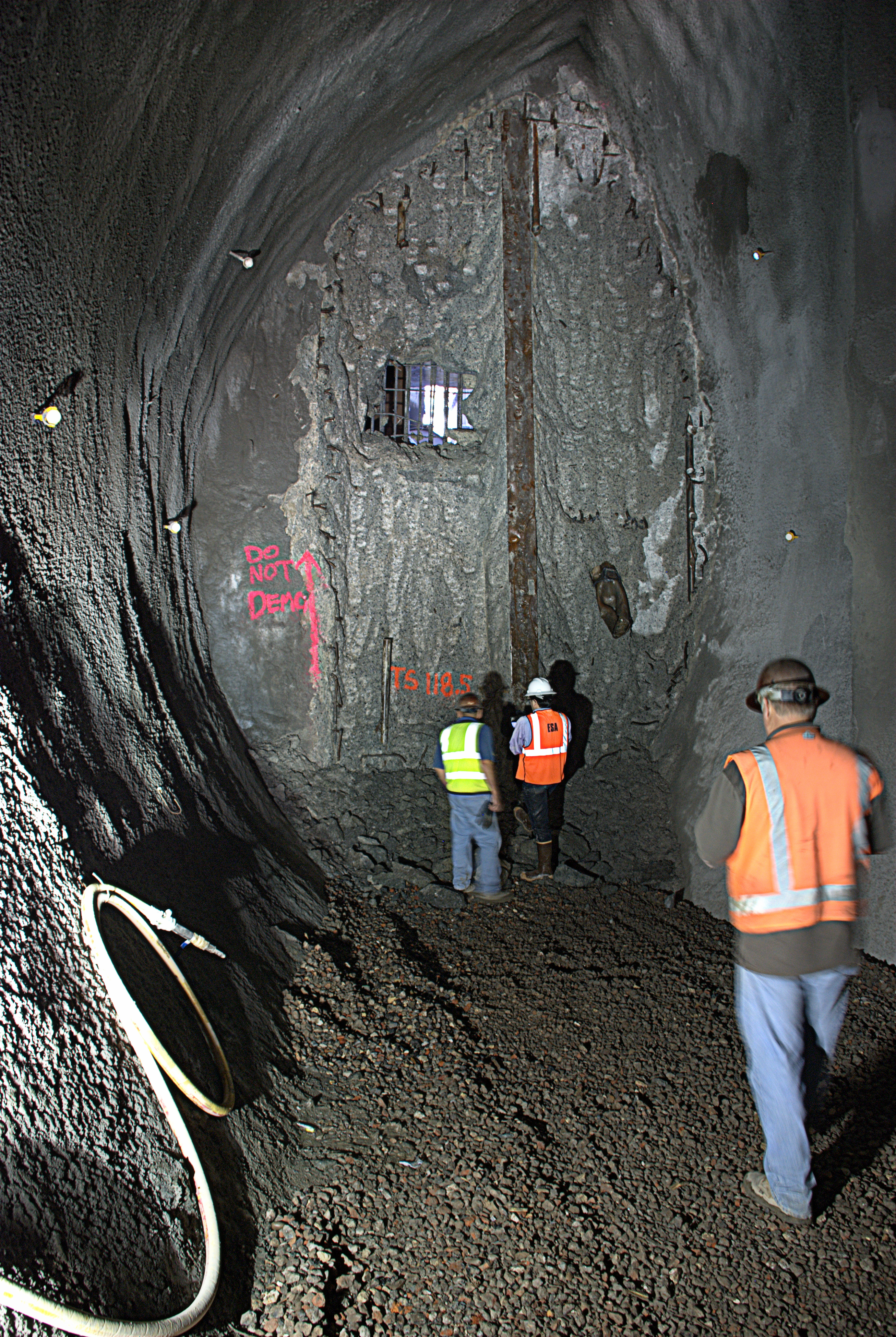 On Sept. 20, 2012, sandhogs working on the East Side Access project broke through the last piece of wall separating the Manhattan tunnel from the Queens tunnel, thereby taking a big step toward a contiguous tunnel more than 3.5 miles long from Sunnyside Yard in Queens to 37th Street and Park Avenue in Manhattan